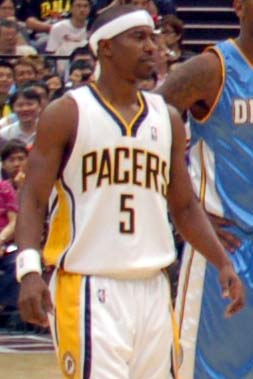 T.J. Ford